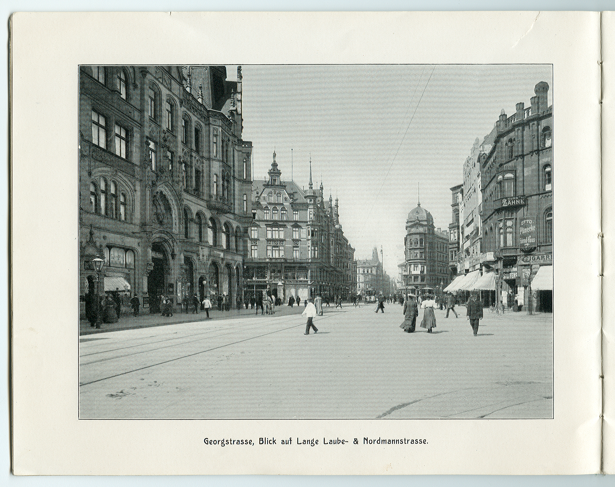 Georgstrasse, View to Lange Laube & Nordmannstrasse.